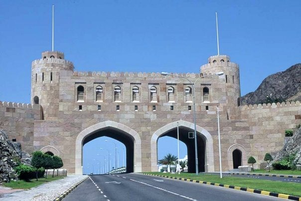 Such gateways mark many roads in Muscat - city beautification is a top priority for the Muscat Municipality